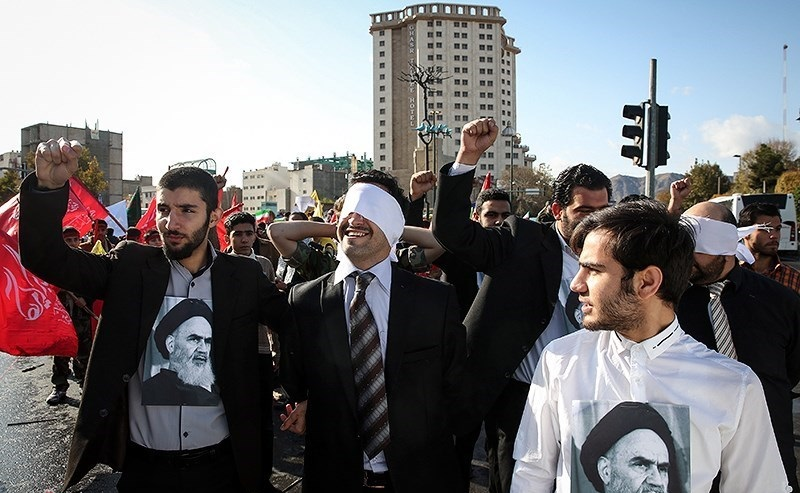 Simulation of Iran hostage crisis